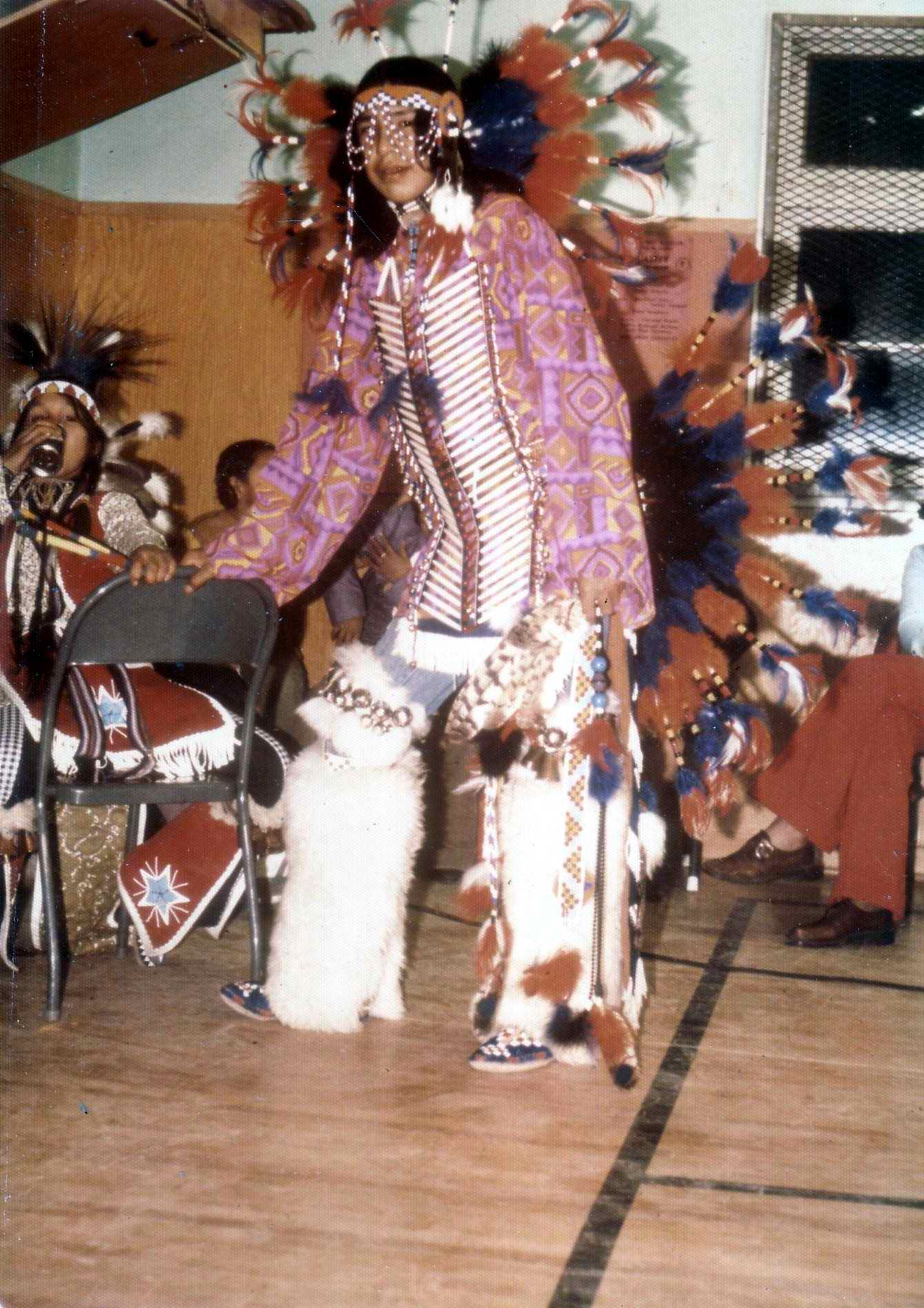 Blackfoot dancer, Alberta, Canada